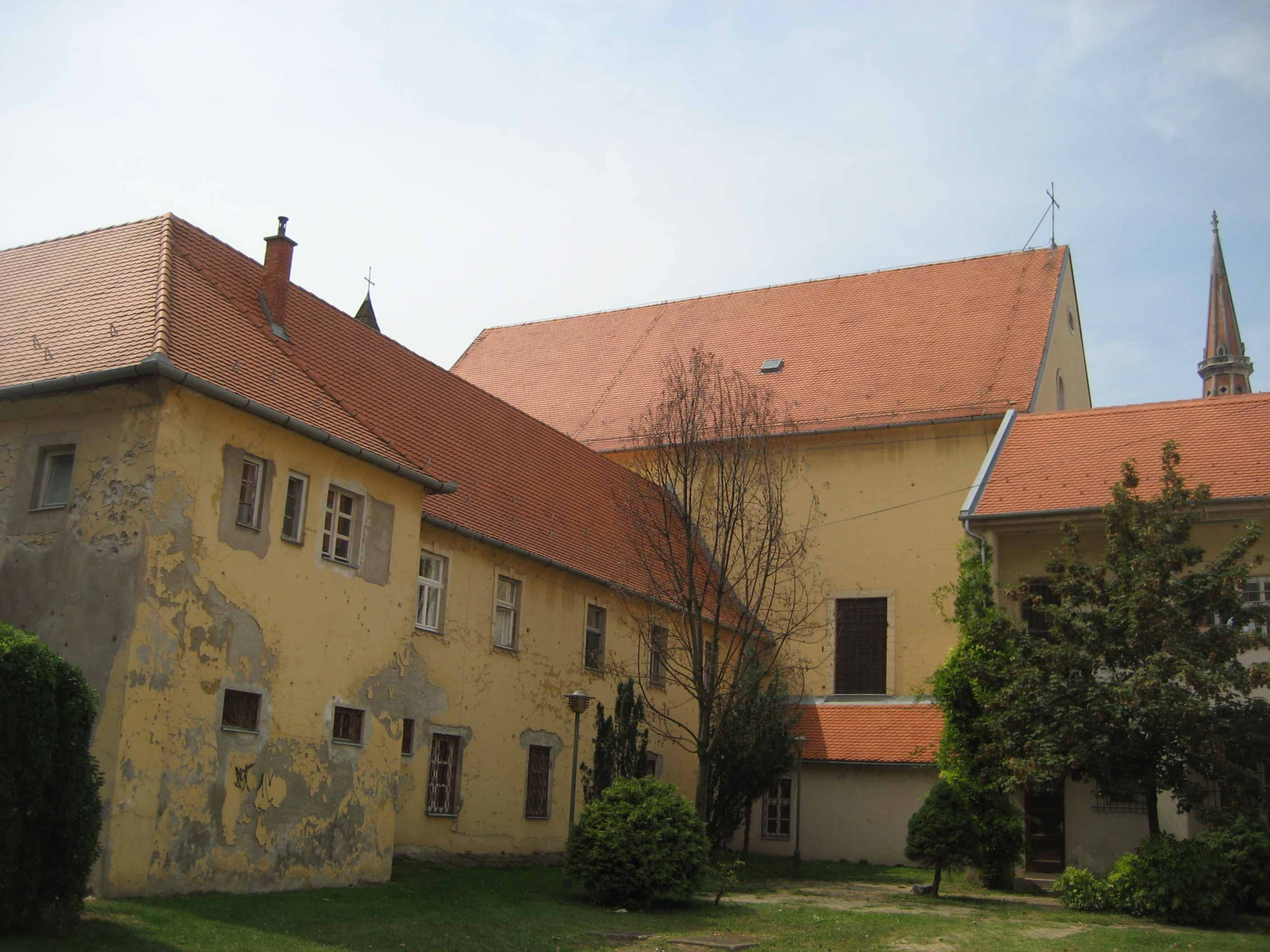 Osijek